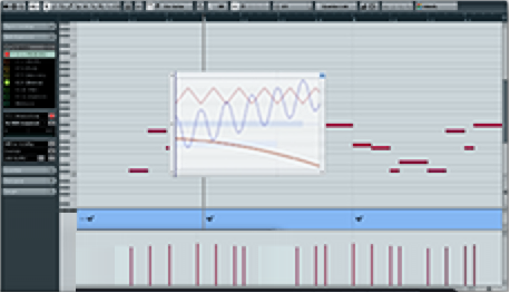 Cubase 6 feature collage Licensed under CC-BY-SA-3.0 on